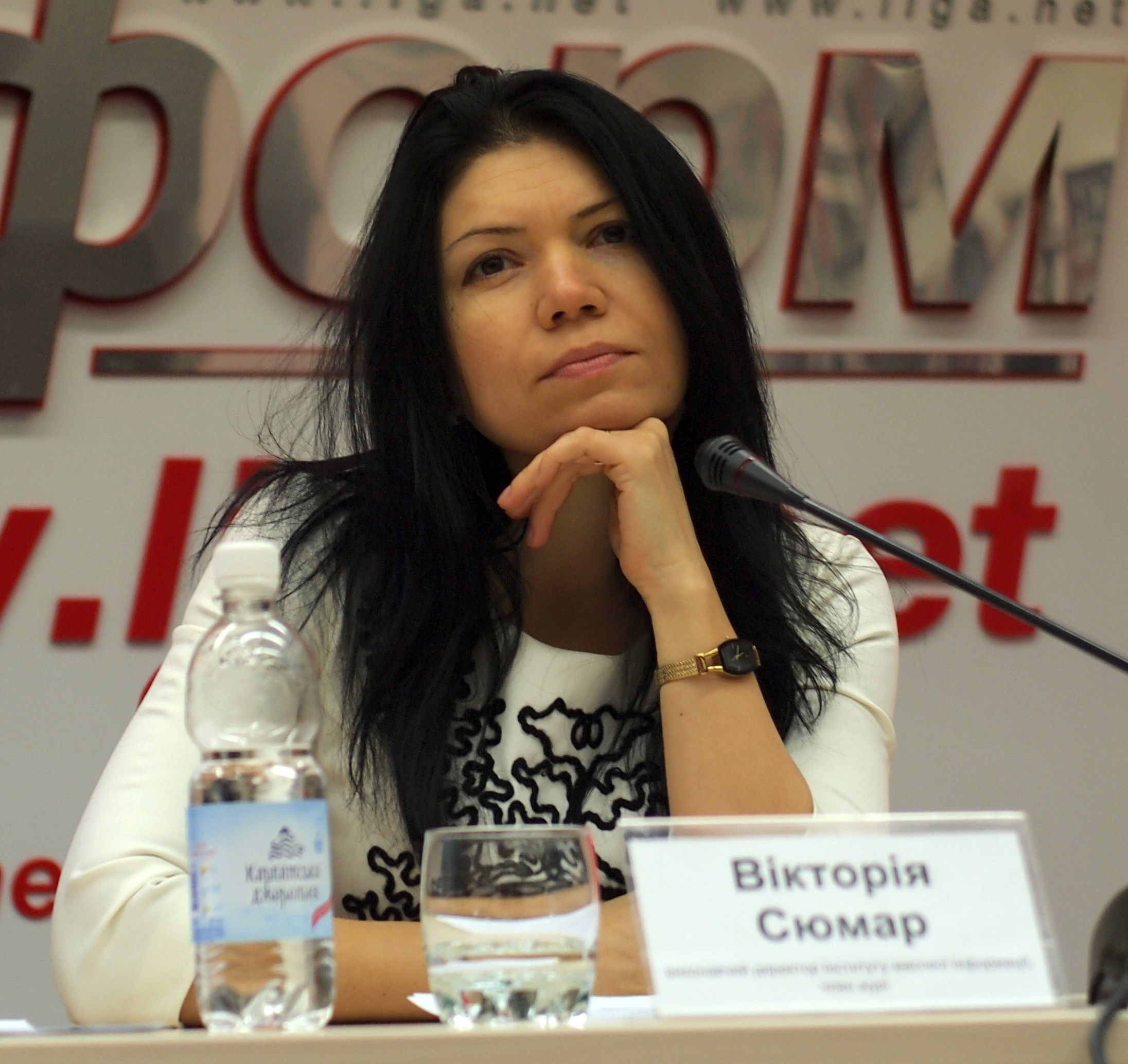 Viktroria Syumar, Ukrainian journalist, Executive Director of the Institute for Mass Information at the press-conference of "Writing About Charity" Wikipedia articles writing contest.